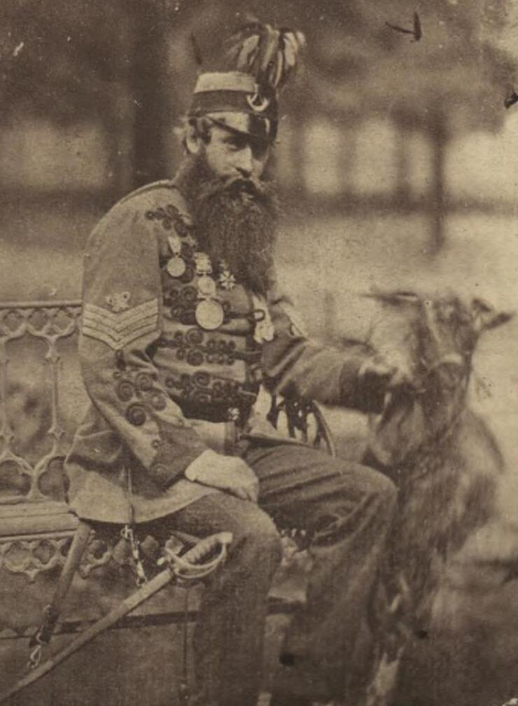 A portrait from the Welsh Portrait Collection at the National Library of Wales. Depicted person: Robert Shields – Recipient of the Victoria Cross